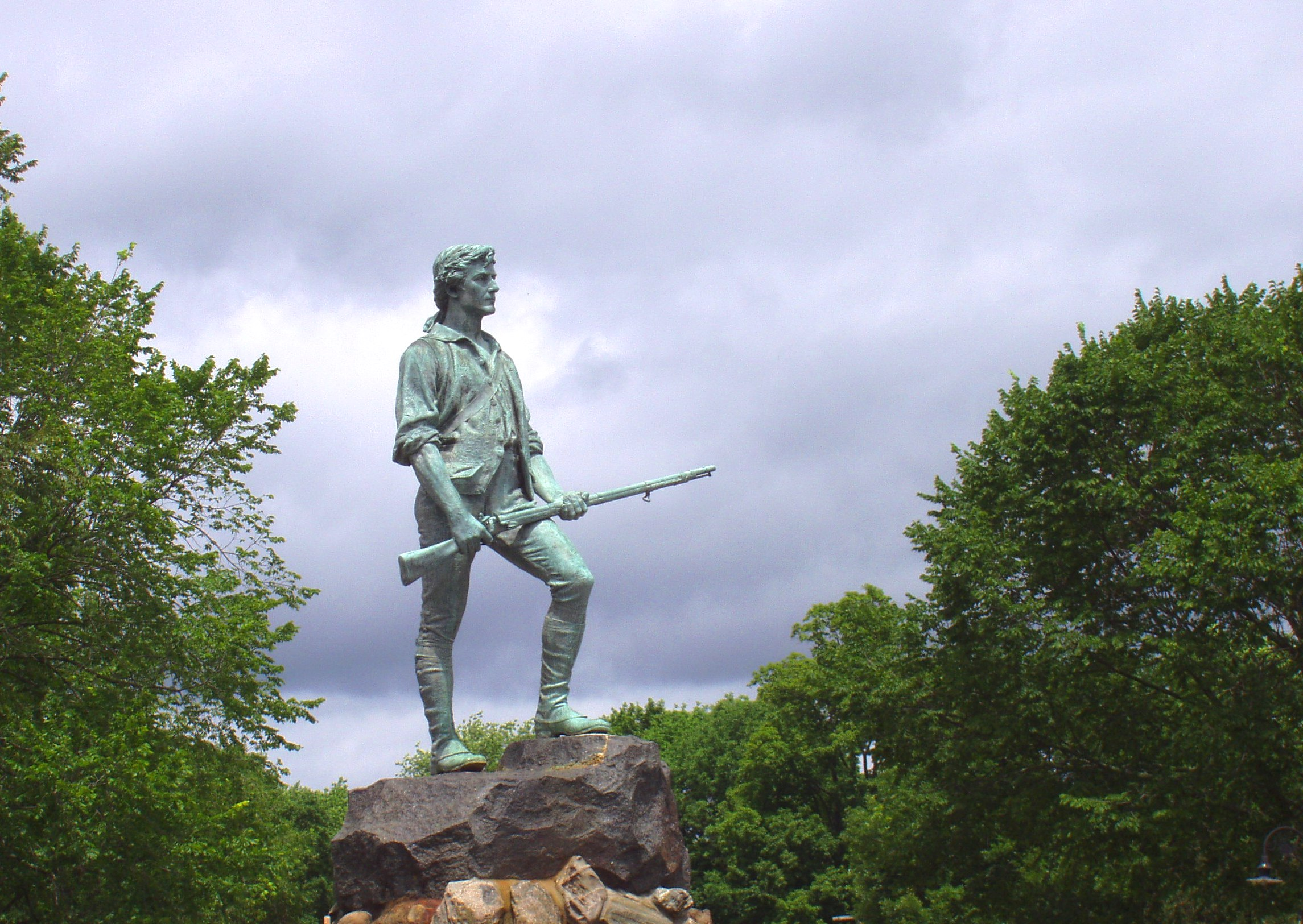 This is a photograph of the statue often incorrectly believed to represent Captain John Parker sculpted by Henry Hudson Kitson and erected in 1900. This statue in Lexington, Massachusetts is commonly called "The Lexington Minuteman" because it was meant to represent the Minutemen generally rather than any individual. There are no known portraits of John Parker made while he was alive. It is often confused with the Daniel Chester French statue The Minute Man in nearby Concord (shown at right).